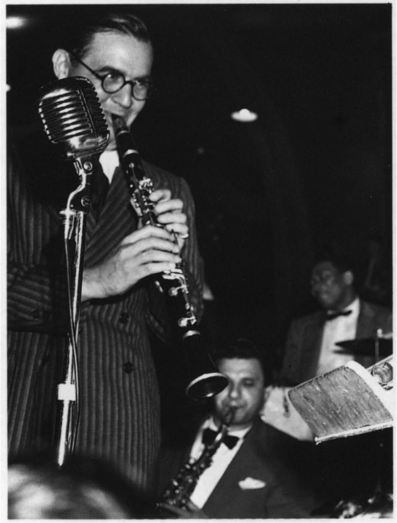 Benny Goodman (left) with Vido Musso and Sid Catlett (background) (Photograph by William P. Gottlieb)